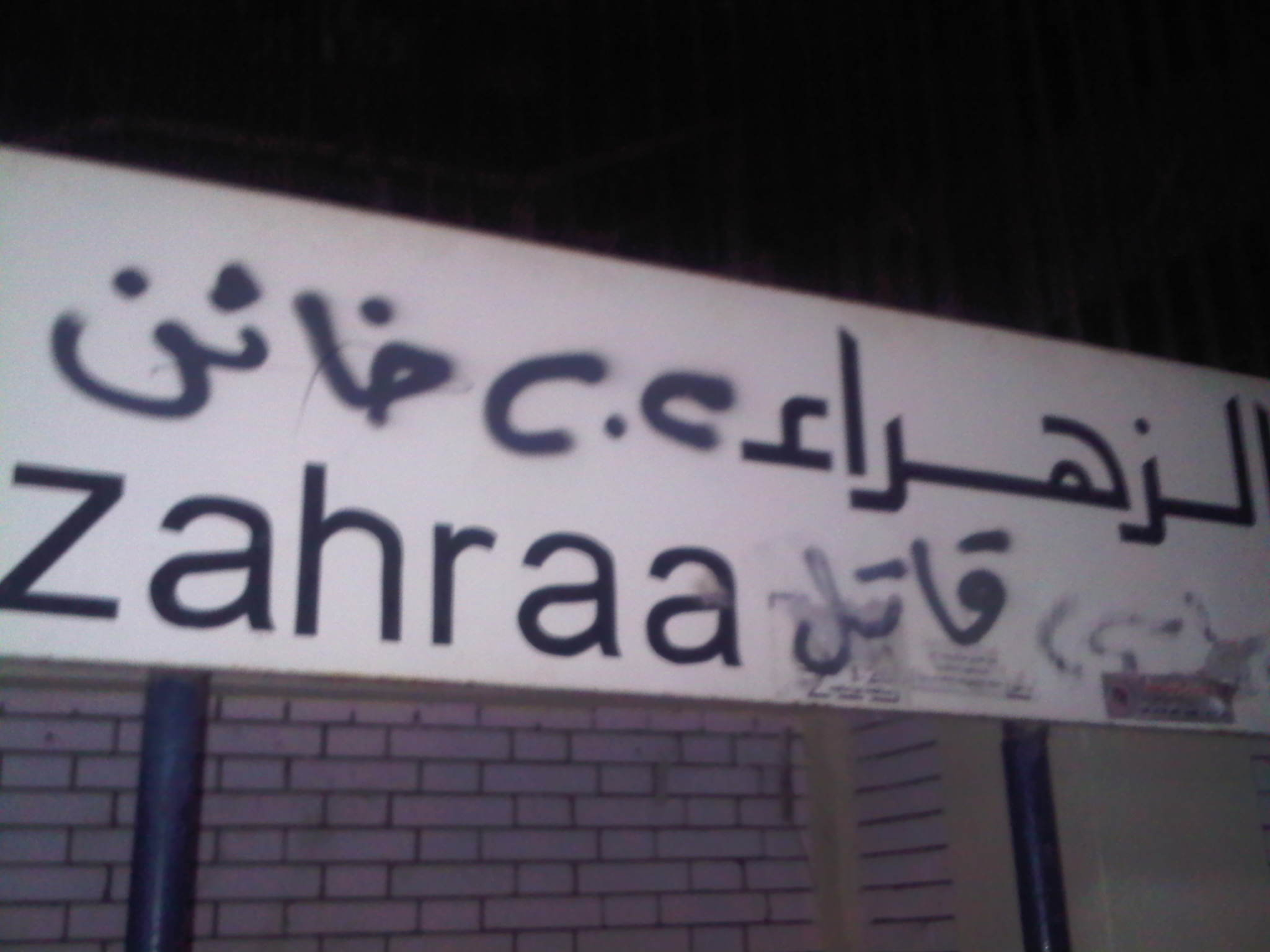 In Al zahraa subway metro station written by paint spray by Muslim brotherhood miltias that marshal abdel fattah al sisi is Traitor and killer